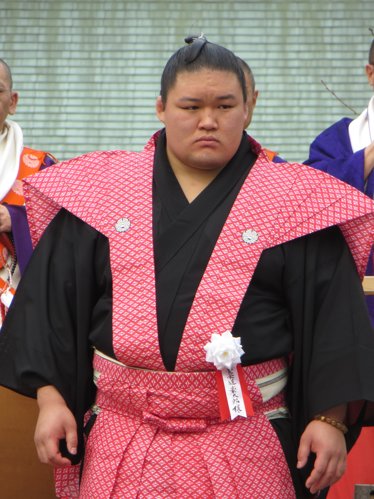 Gōeidō Gōtarō in Naritasan Osaka betsuin Myooin, Neyagawa, Osaka